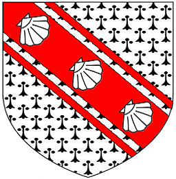 Arms of Perrot family of Pill, Bishop's Tawton, Devon: Ermine, on a bend cotised gules three escallops argent (Source: Pole, Sir William (d.1635), Collections Towards a Description of the County of Devon, Sir John-William de la Pole (ed.), London, 1791, p.496)